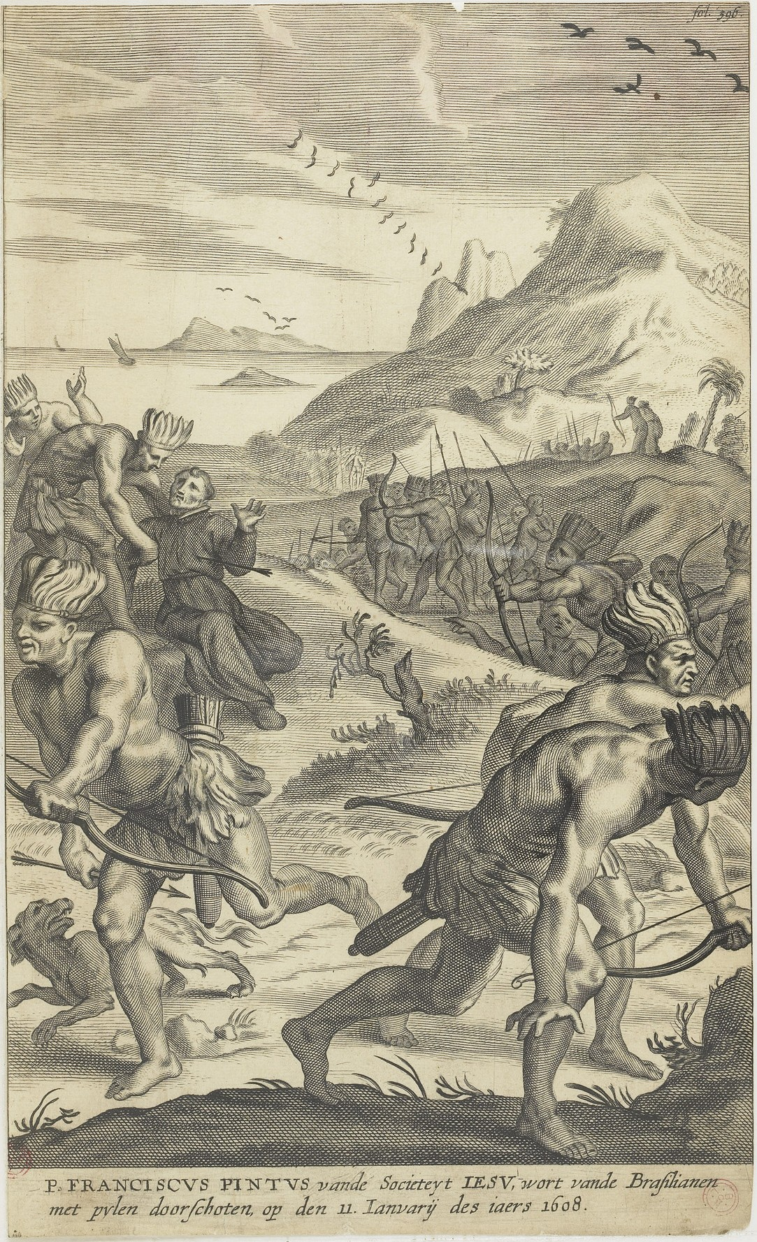 Murder of Portuguese priest Francisco Pinto (1552-1608), made by Michiel Cnobbaert in 1667 and published in Cornelius Hazart work "Kerckelycke historie van de Gheheele wereldt namelyck vande voorgaende ende teghenwoordighe Eeuwe beschreven door den Eerw", p396